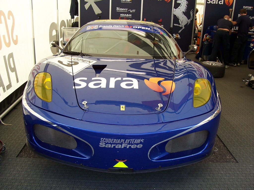 Scuderia Playteam Sarafree's Ferrari F430 GT2 at the Brands Hatch round of the International GT Open